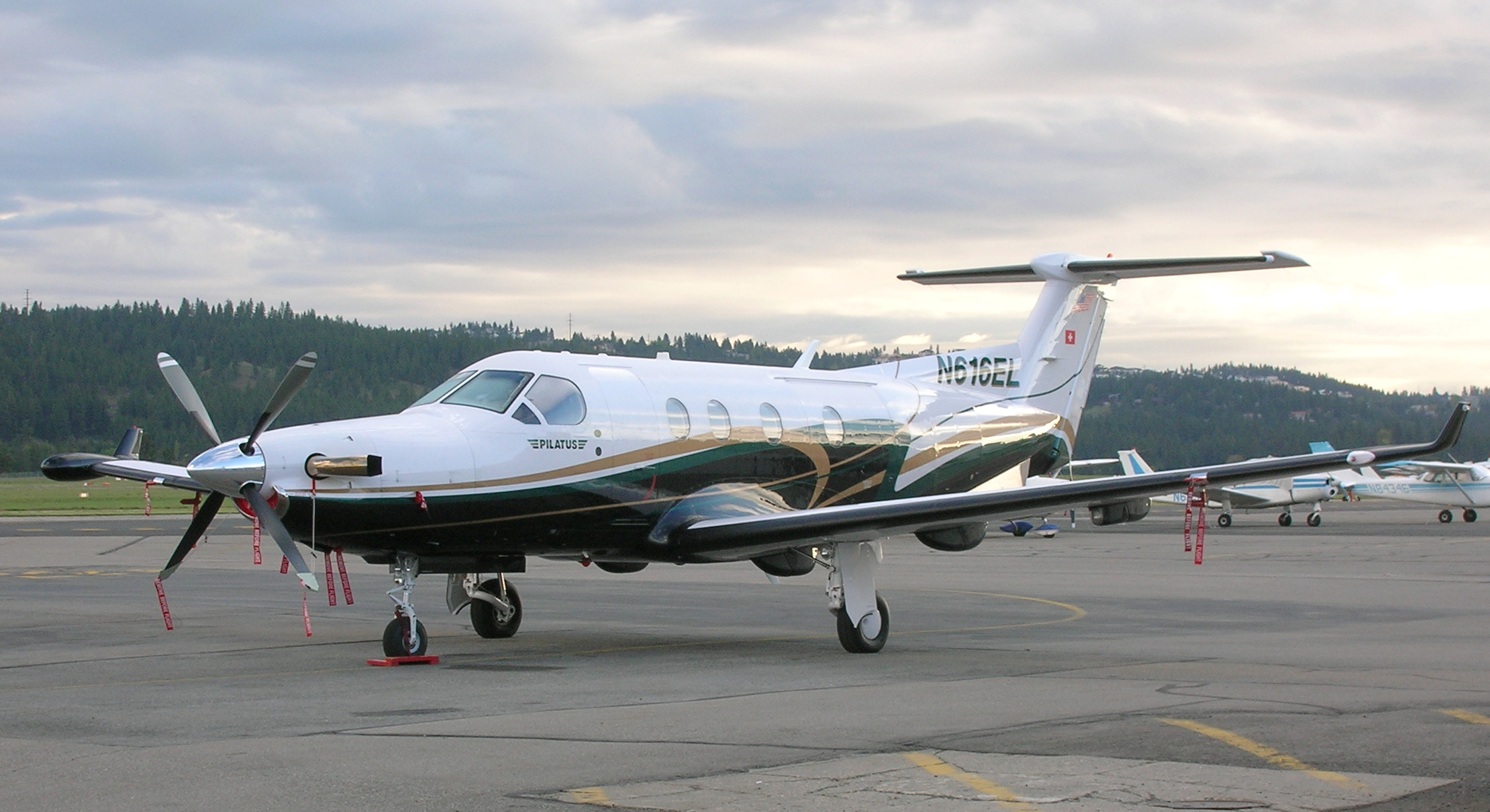 Pilatus PC-12/45, Felts Field, Spokane, Washington